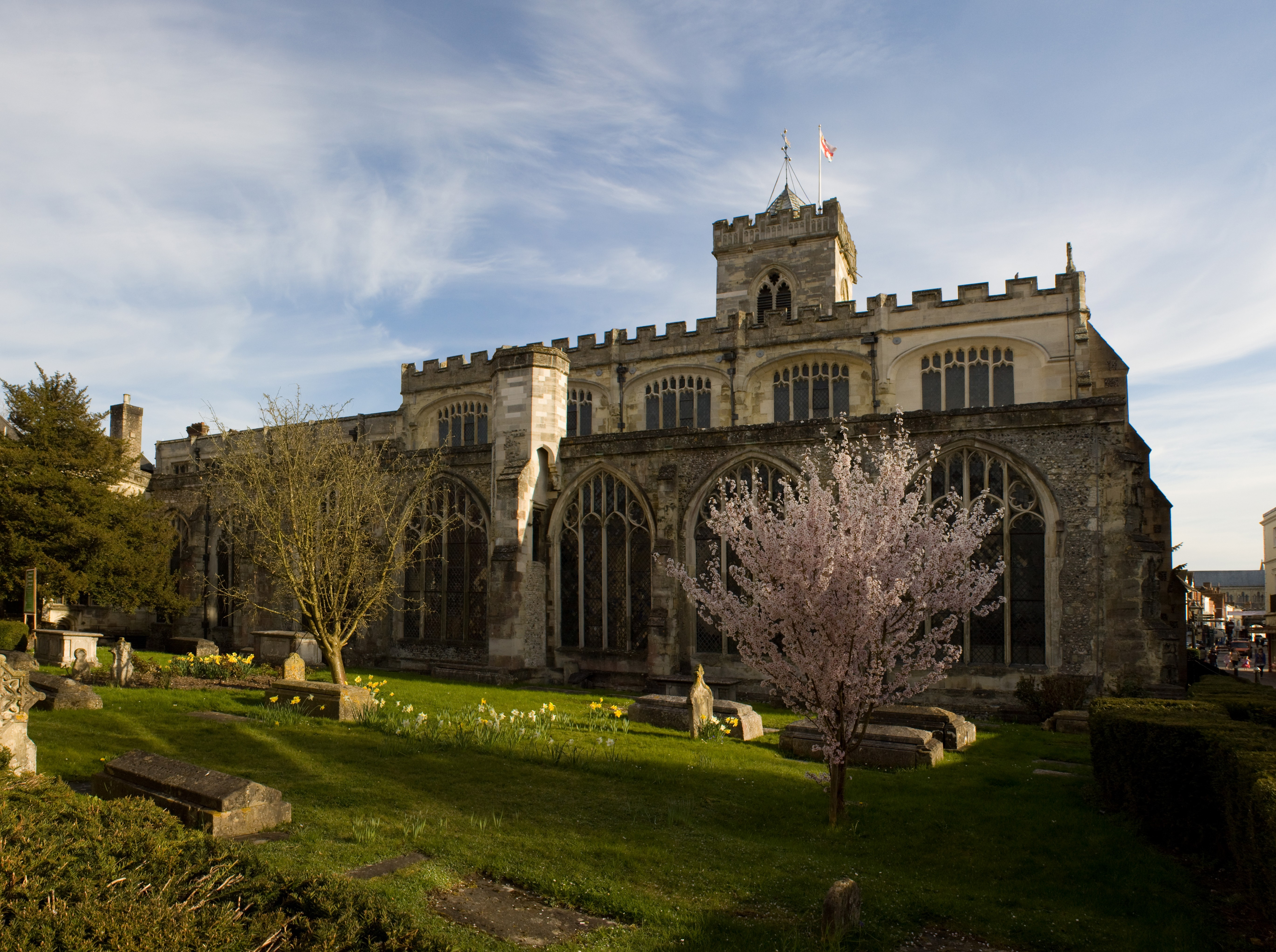 Church of St Thomas